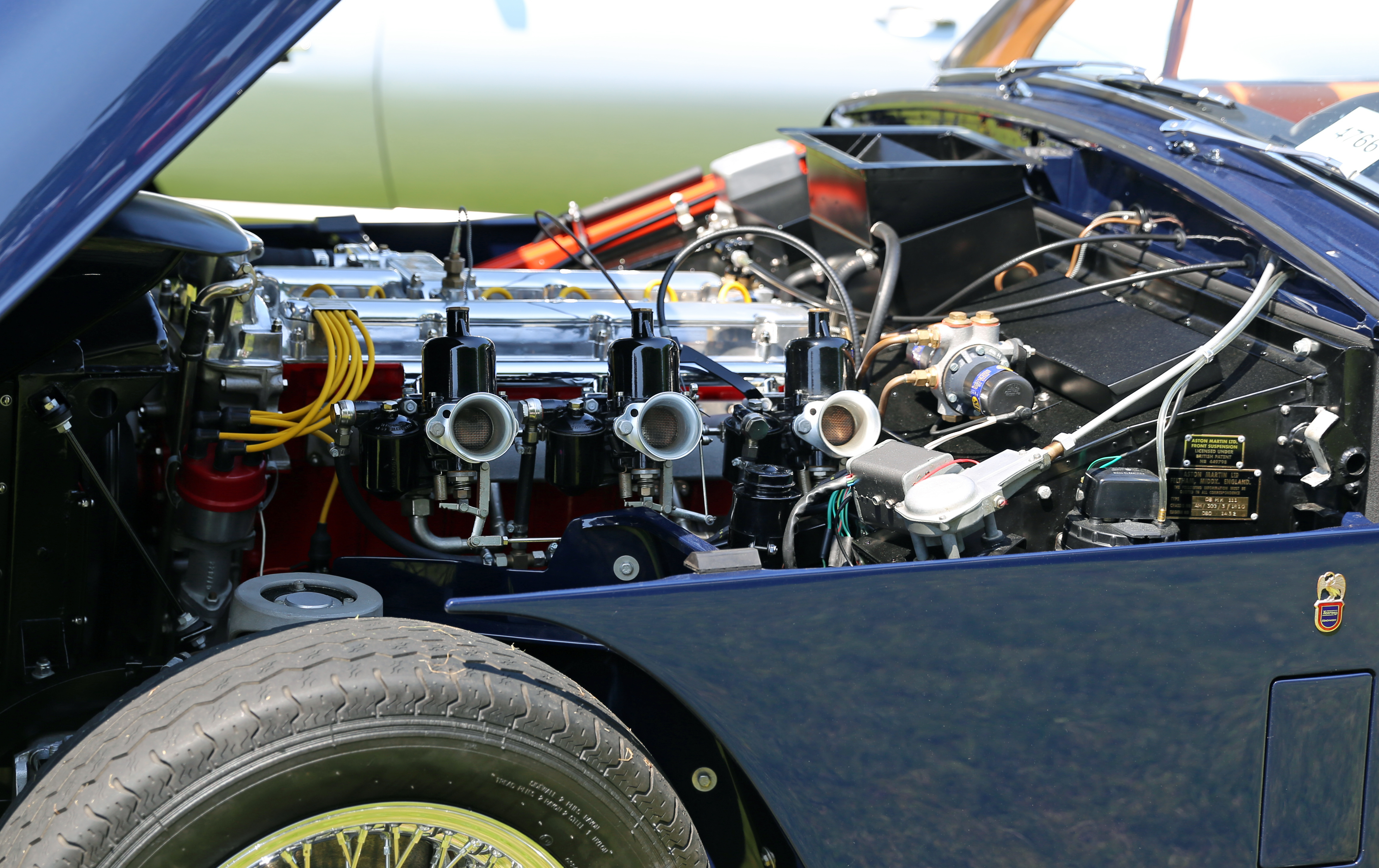 Aston Martin (well, Lagonda actually) DBD engine in a 1959 Aston Martin DB 2/4 Mark III Drophead Coupé at the 2013 Greenwich Concours d'Elegance. 14 DHCs were equipped with the DBD engine, which has triple SU carburettors.